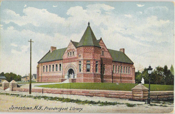 Postcard: Prendergast Library, Jamestown, New York, circa 1901-1907 (undivided back postcard)